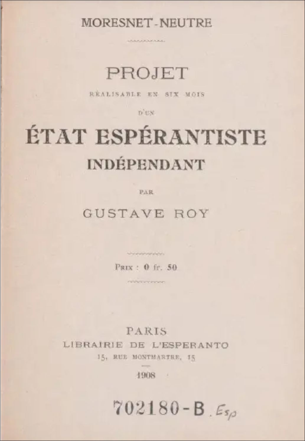 Booklet from Gustave Roy about Moresnet Neutral